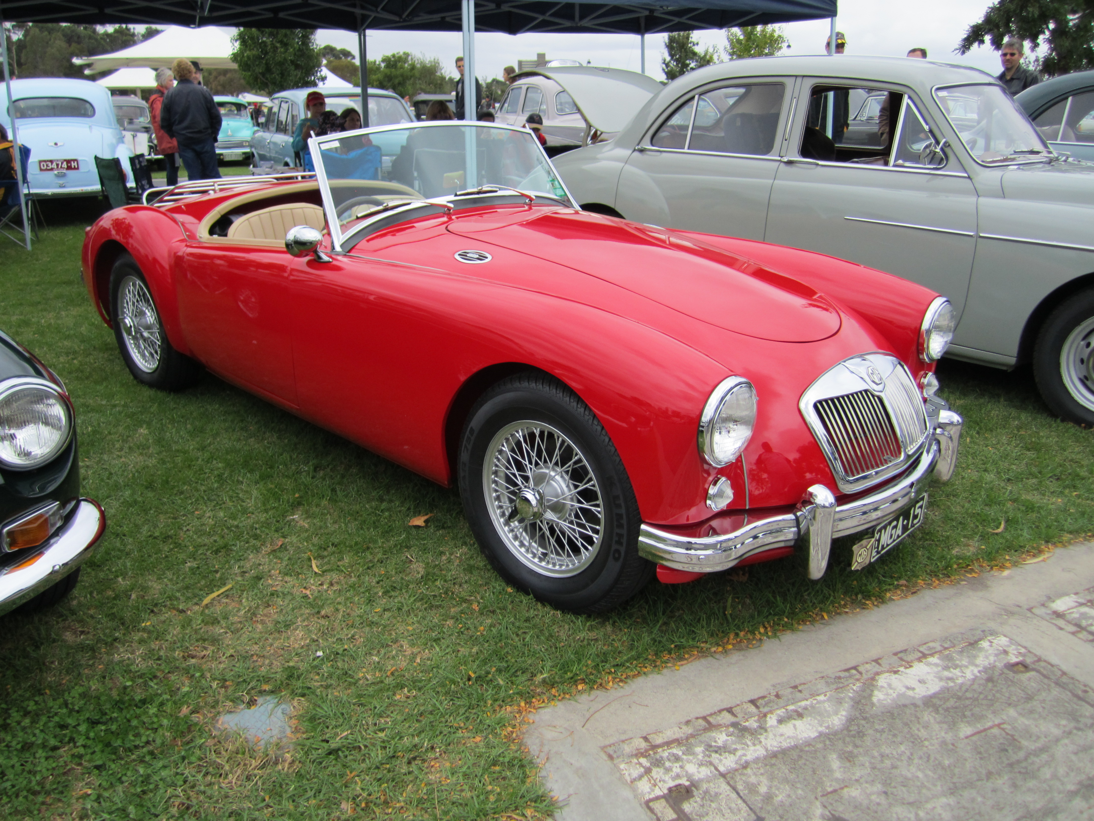 Built from1955-62. Available in Roadster or Coupe. Engine; 1500cc 4 cyl